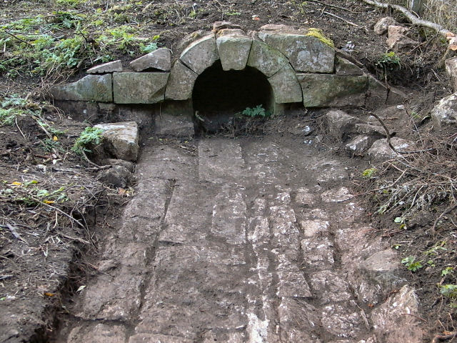 Spillway / drain L=80+ ft, W=10.5ft,H=3ft. Limestone c1796